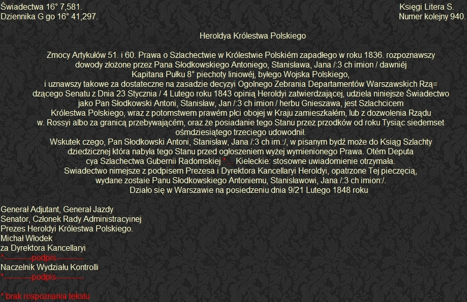 Original content with the image of nobility Patent crest Gnieszawa